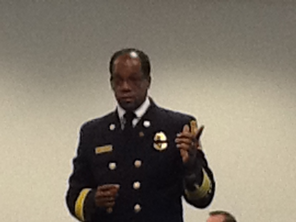 Taken at a meeting of Advisory Neighborhood Commission 1B at the Reeves Center, 14th and U Streets, on the evening of September 5, 2013